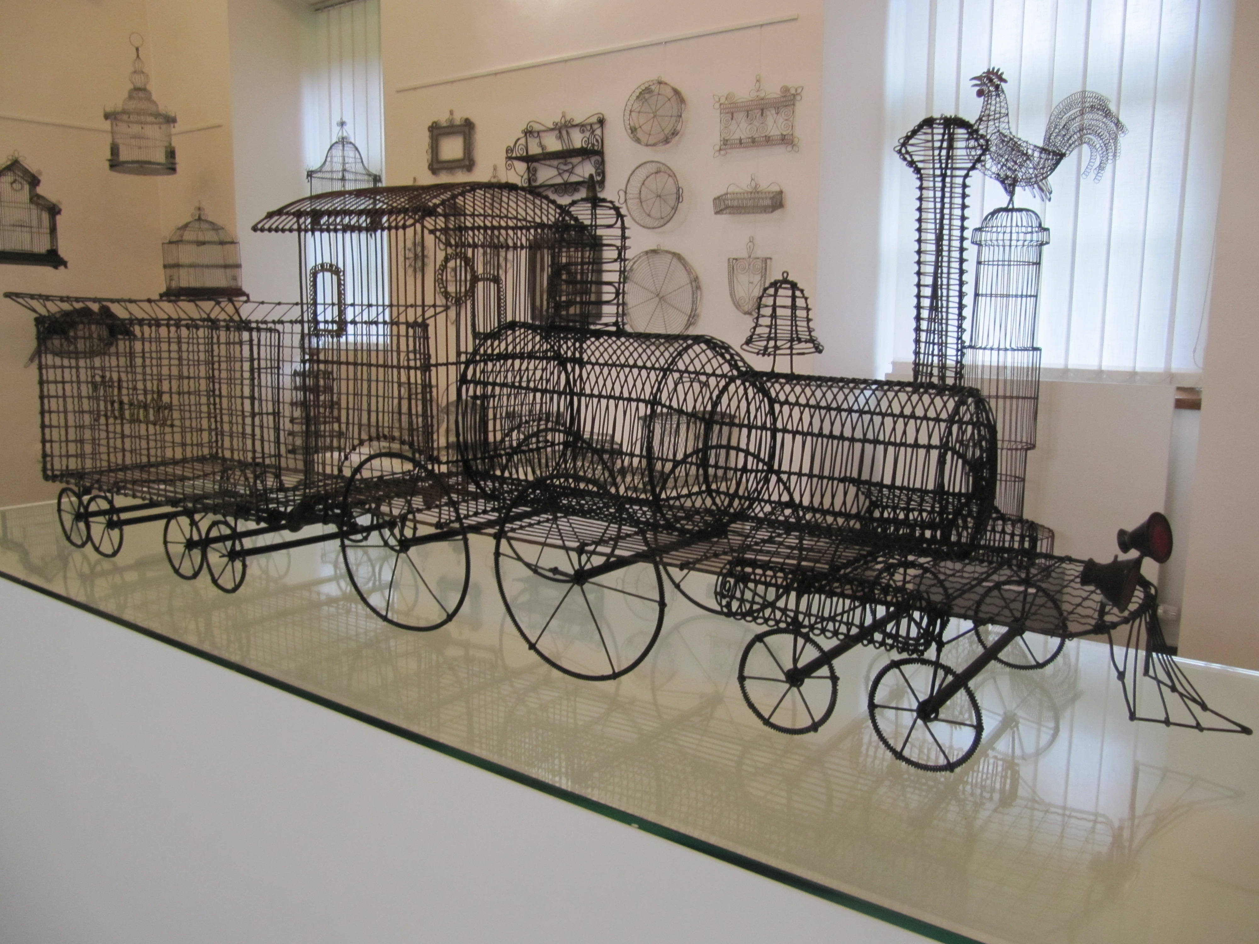 Žilina, Slovakia, Budatín Castle. Považské Museum, a permanent exhibition of tinkers' art. The only museum in the world dedicated entirely to the tinker trade.